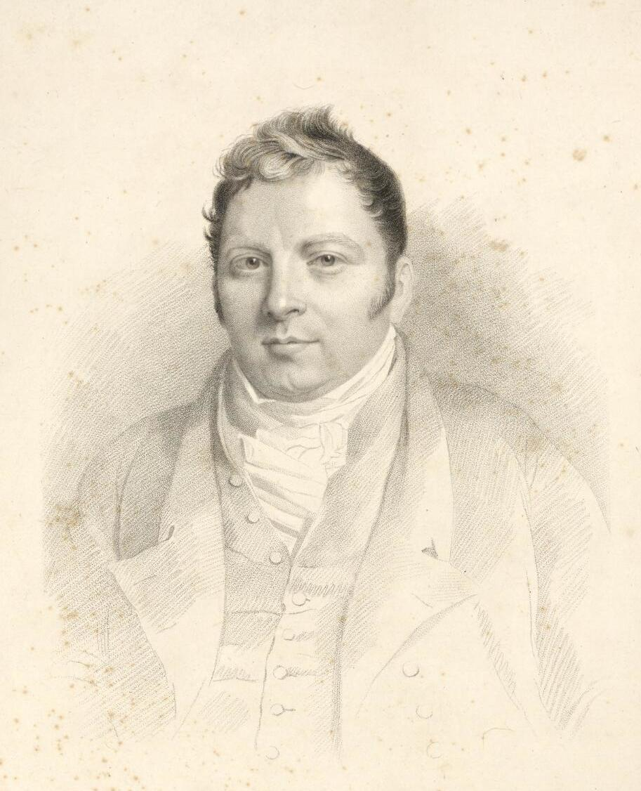 A portrait from the Welsh Portrait Collection at the National Library of Wales. Depicted person: Charles Lewis – English bookbinder